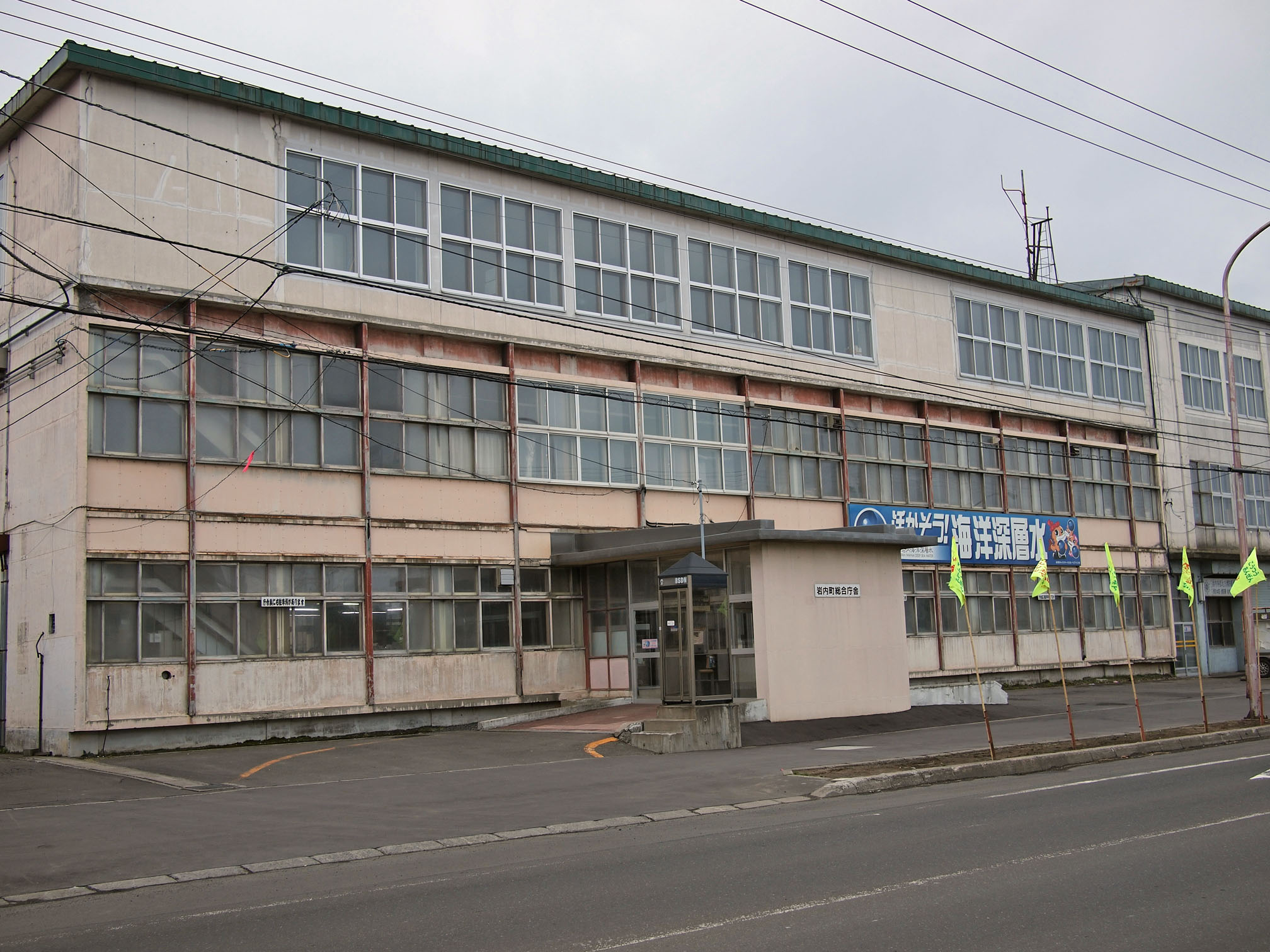 Iwawnai town hall, Iwanai, Hokkaido, Japan